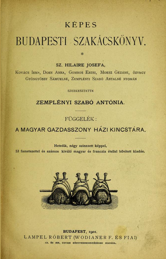 Title page of a cookbook